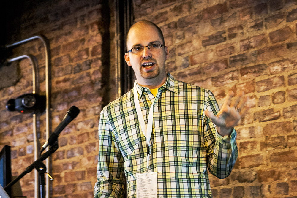 Taylor Otwell speaking at Laracon DC 2013